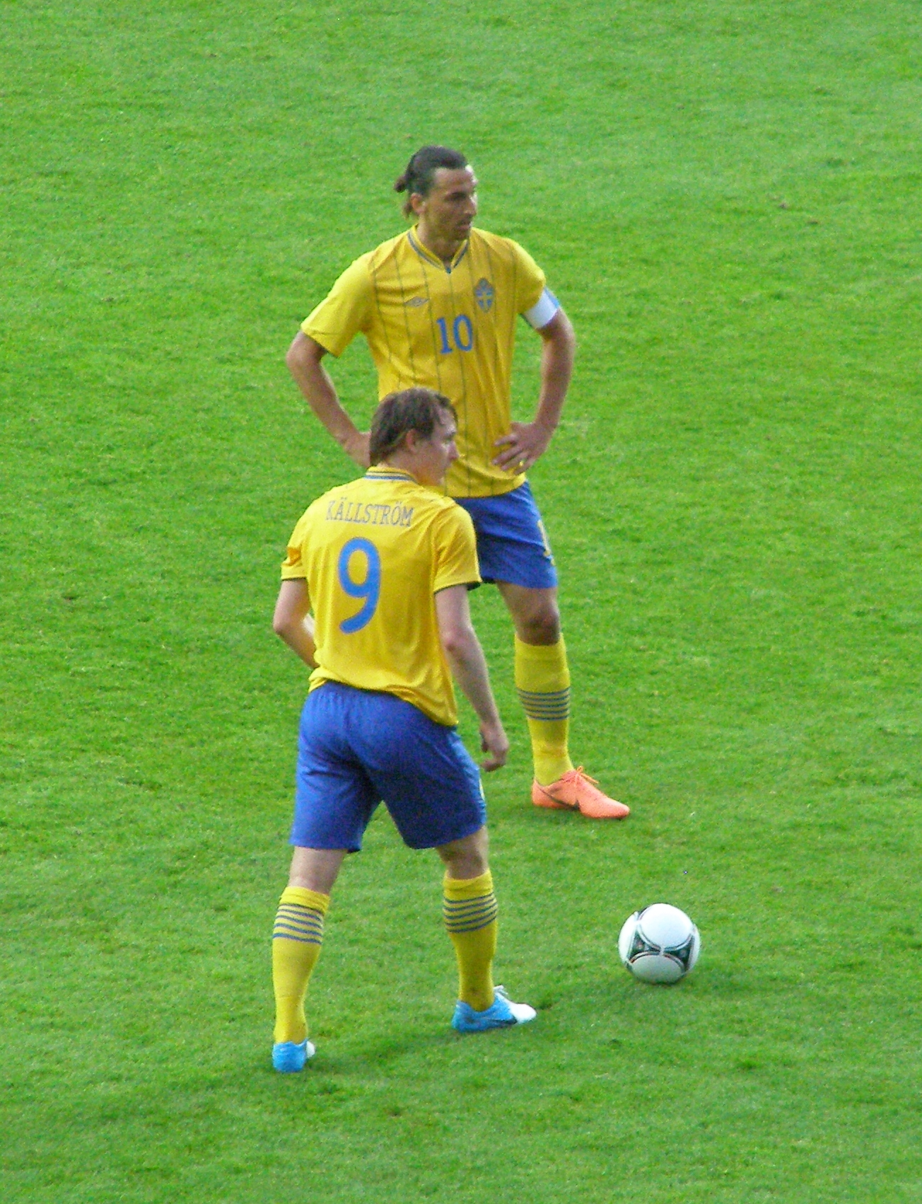 Gothenburg - Gamla Ullevi - Sweden-Iceland friendly - Zlatan Ibrahimović and Kim Källström